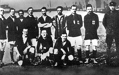 Italian Football Champion 1906 (AC Milan)